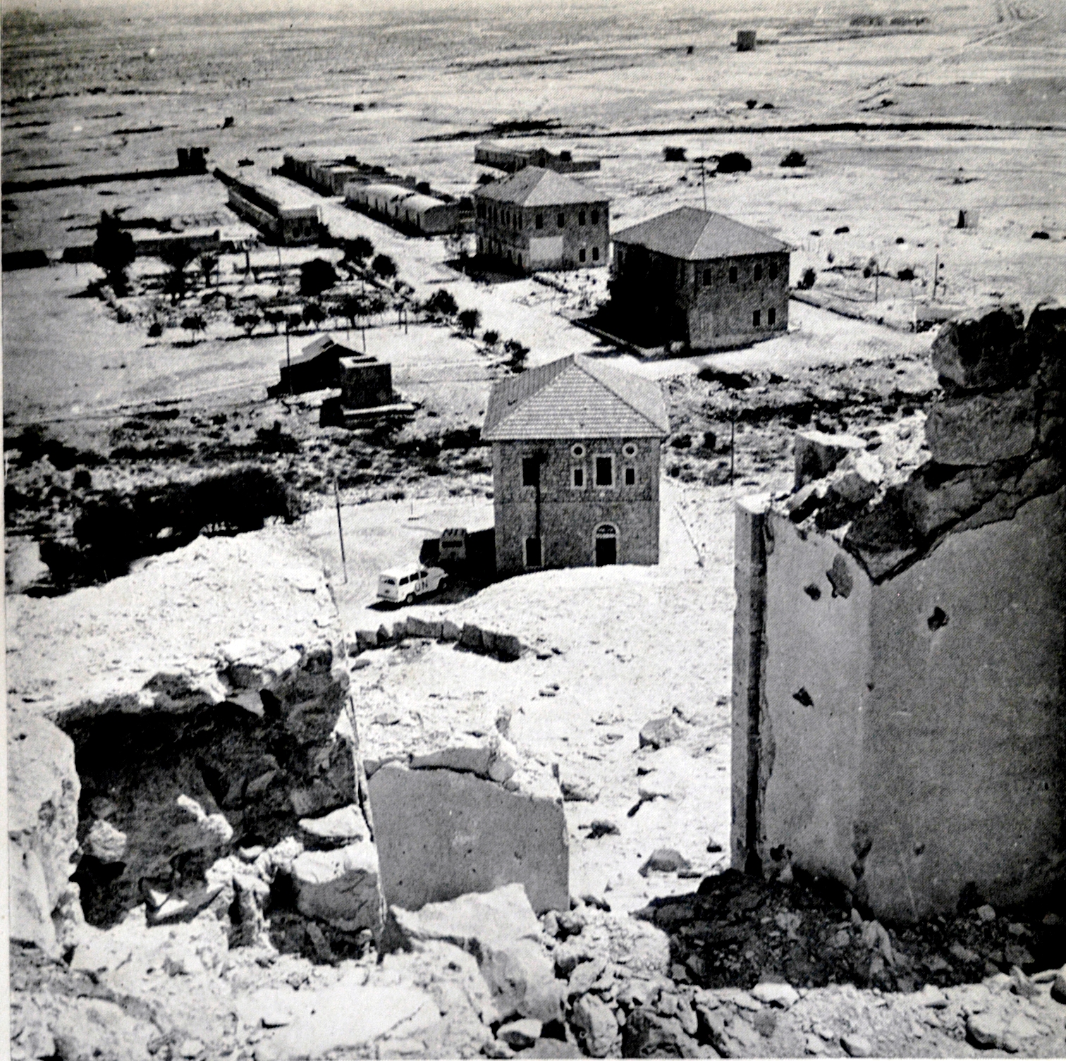 Photo of Al-Auja before 1956. United Nations vehicles in front of nearest building.